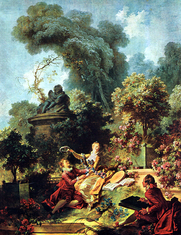 Jean Honore Fragonard's art